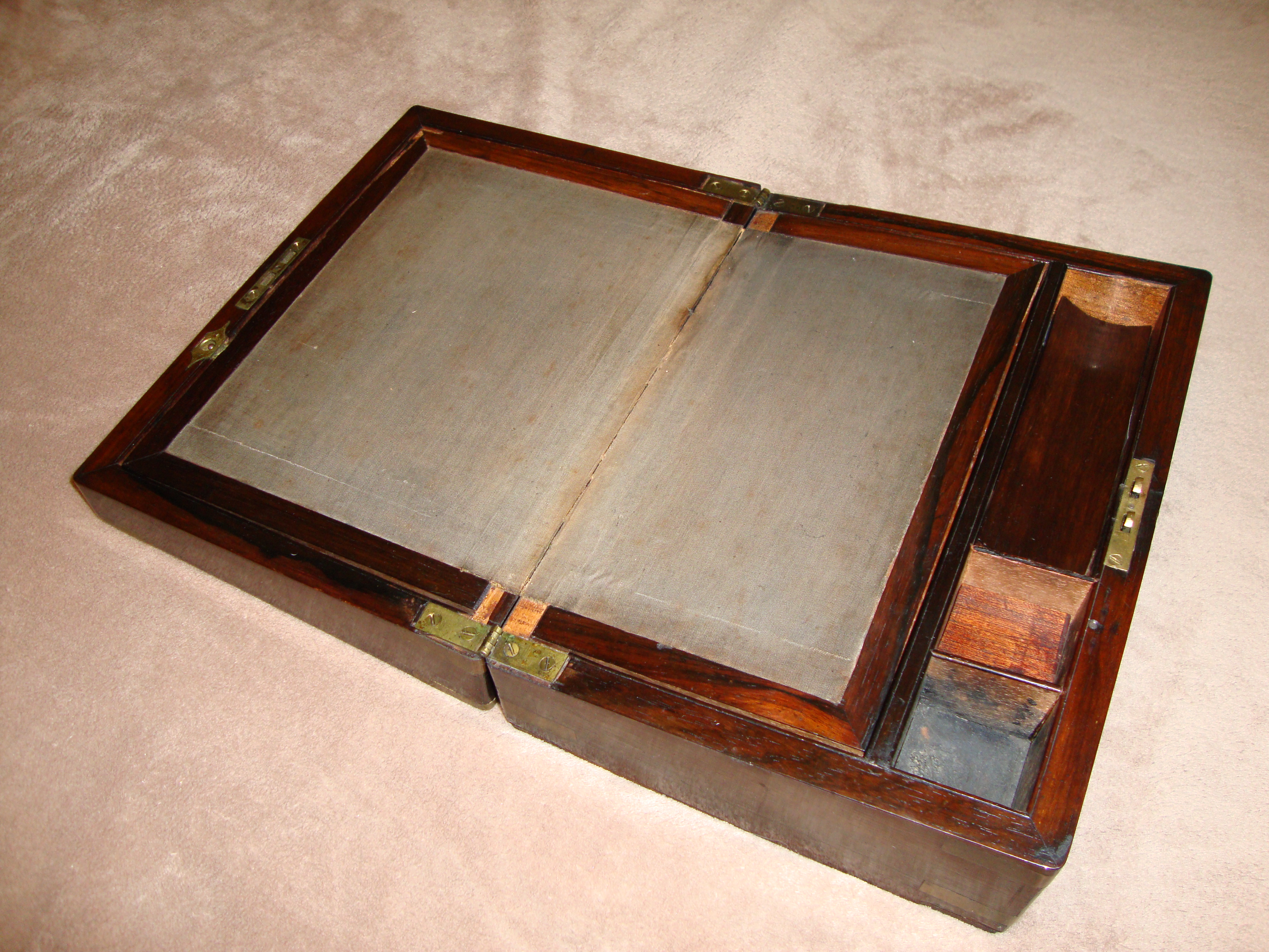 Interior view of antique wooden lap desk. The small compartments would have held pens, an inkwell, and other writing materials. It dates from the 18th or early 19th century.